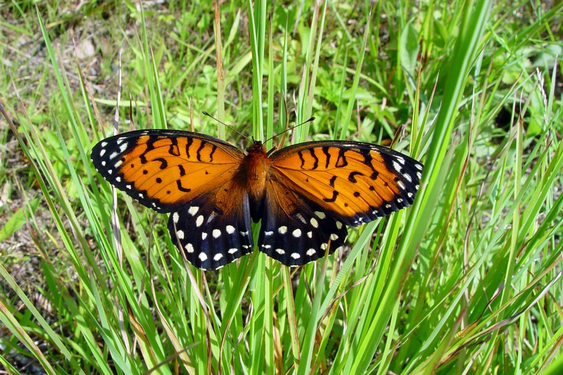 Speyeria adalia Fort Indiantown Gap, Pa.